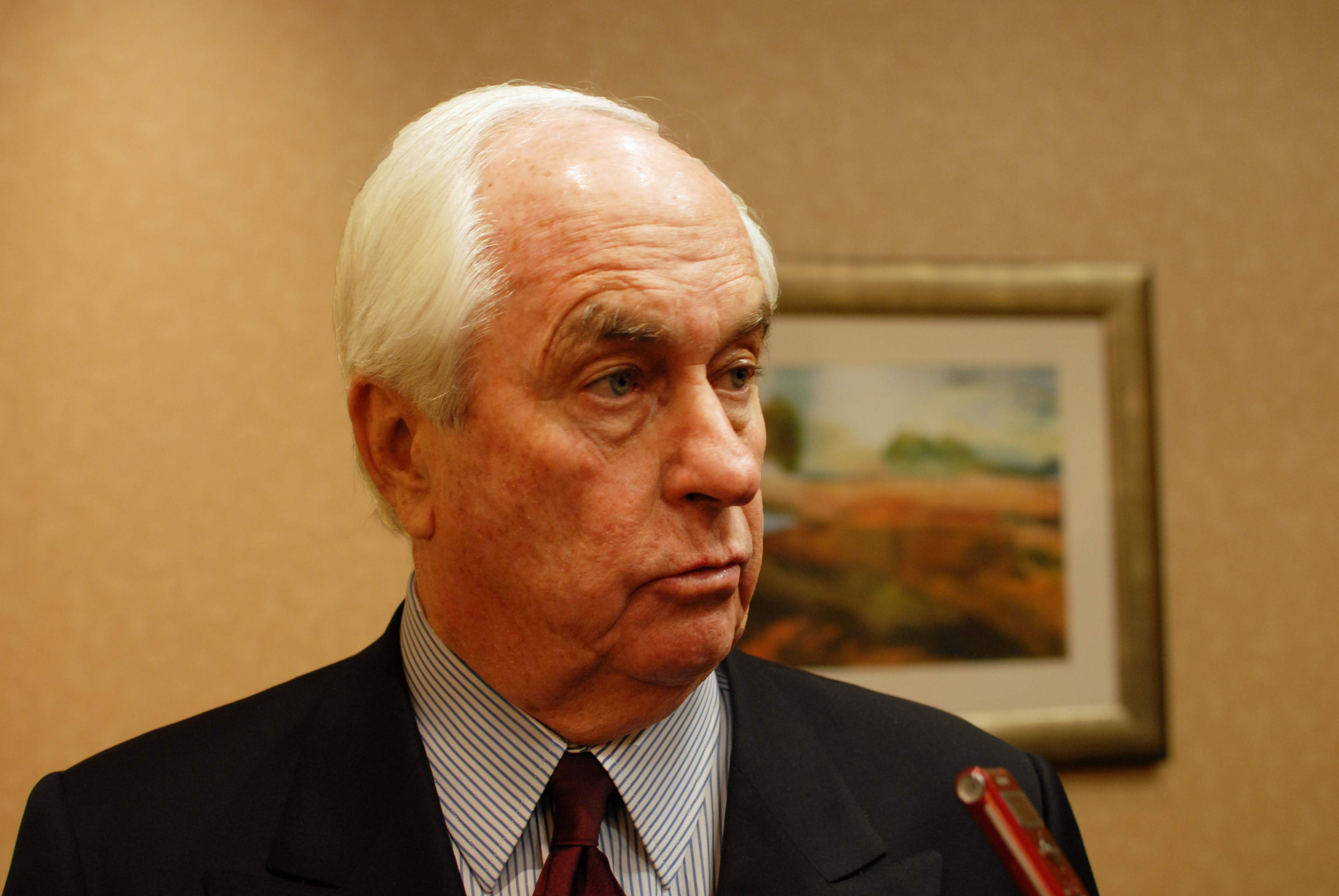 NASCAR and IndyCar owner Roger Penske at a 2010 National Motorsports Press Association event. Photos by Ted Van Pelt. Licensed Creative Commons